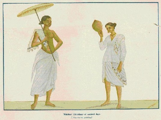 Malabar Christians of 19th century.jpg